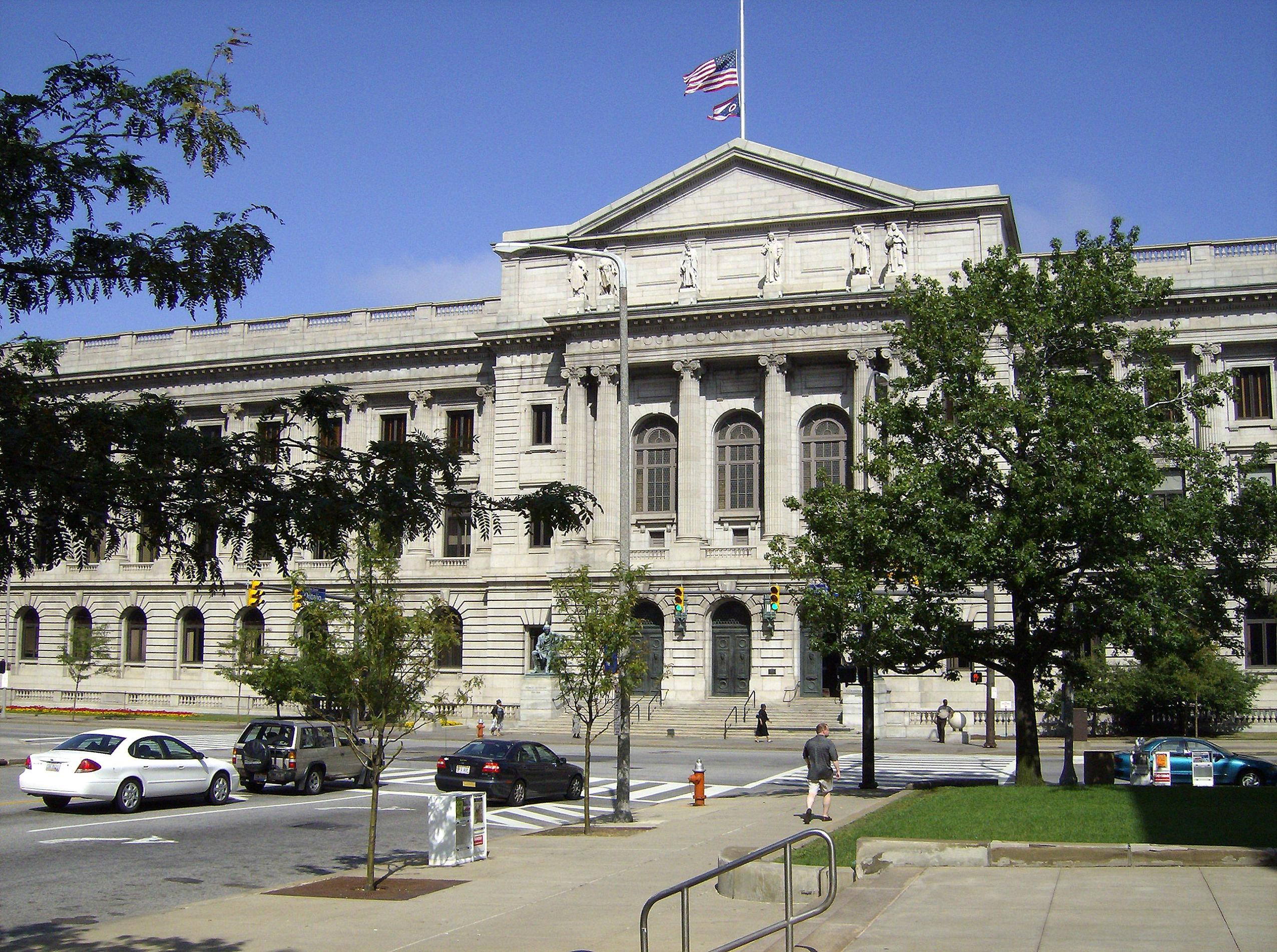 Cuyahoga County Courthouse in Cleveland